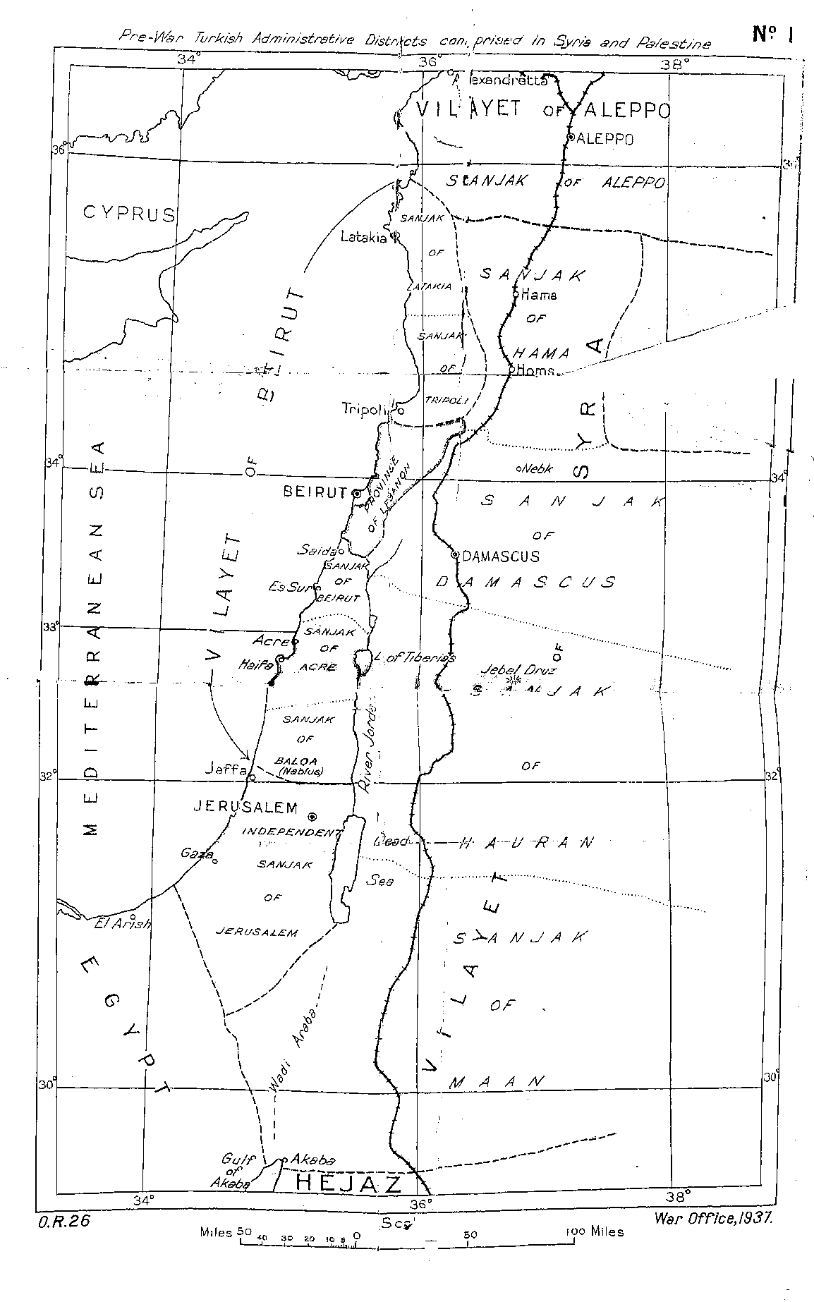 Pre-war Turkish Administrative Districts comprised in Syria and Palestine. Map No. 1 of the Peel Commission Report, presented to illustrate the Vilayets and Sandjaks mentioned in the 1915-10-24 McMahon Letters (McMahon Pledge, see also McMahon–Hussein Correspondence), showing the Ottoman adminstrative divisions. This is the original scan from the scanned copy of the Peel Report as found on the UNISPAL library of the United Nations.